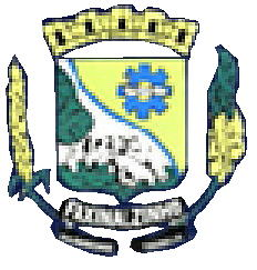 Coat of arms of the city of Faxinalzinho, Rio Grande do Sul, Brazil.